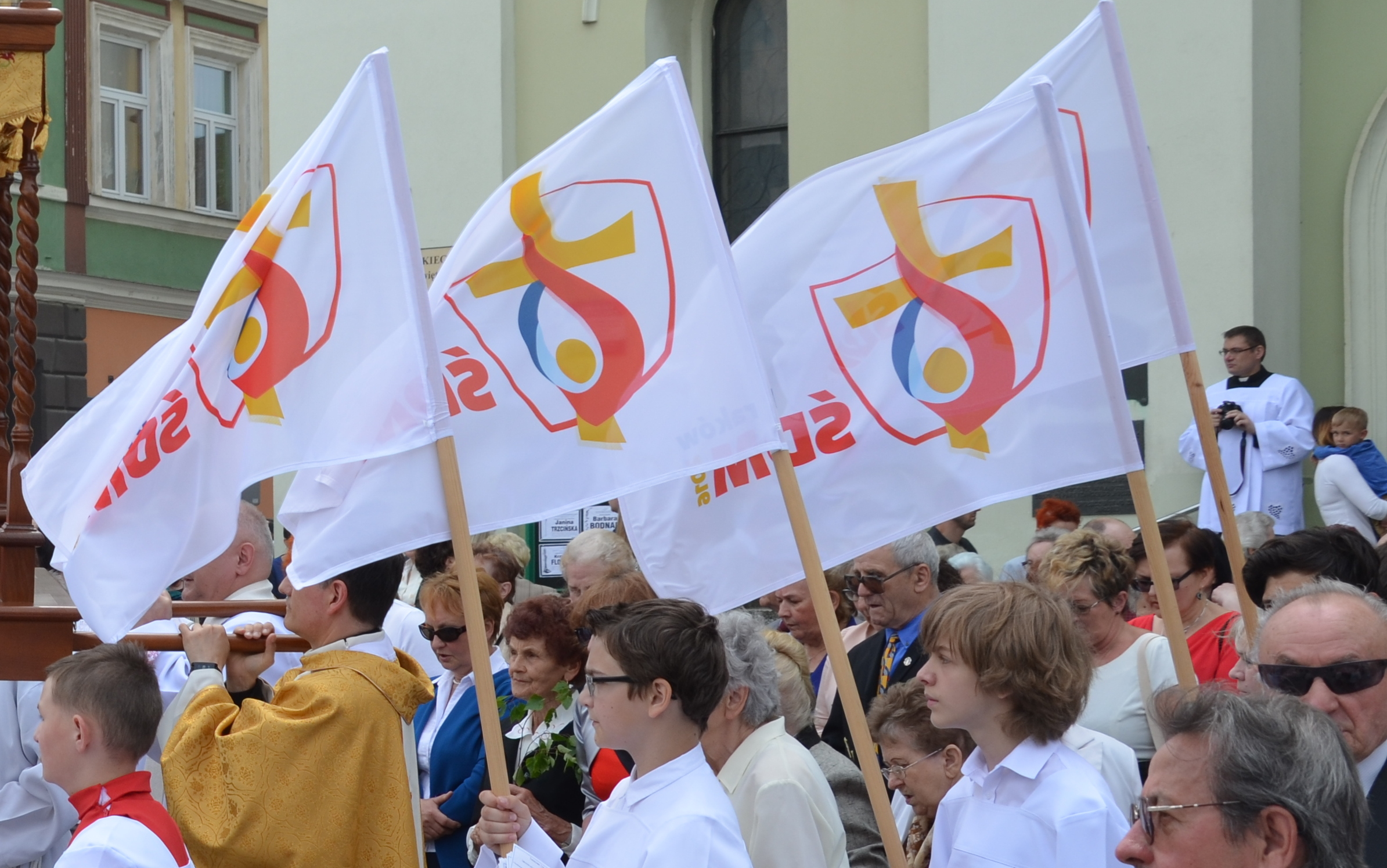 Weltjugendtag 2016